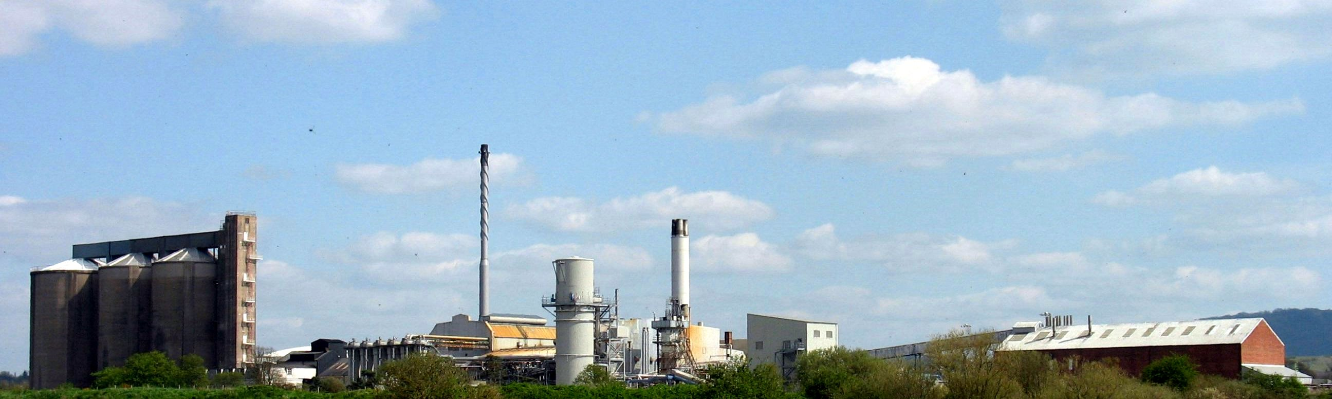 The British Sugar factory at Alscott, Shropshire. Photo taken by Chris Bayley using a Canon Powershot A610.